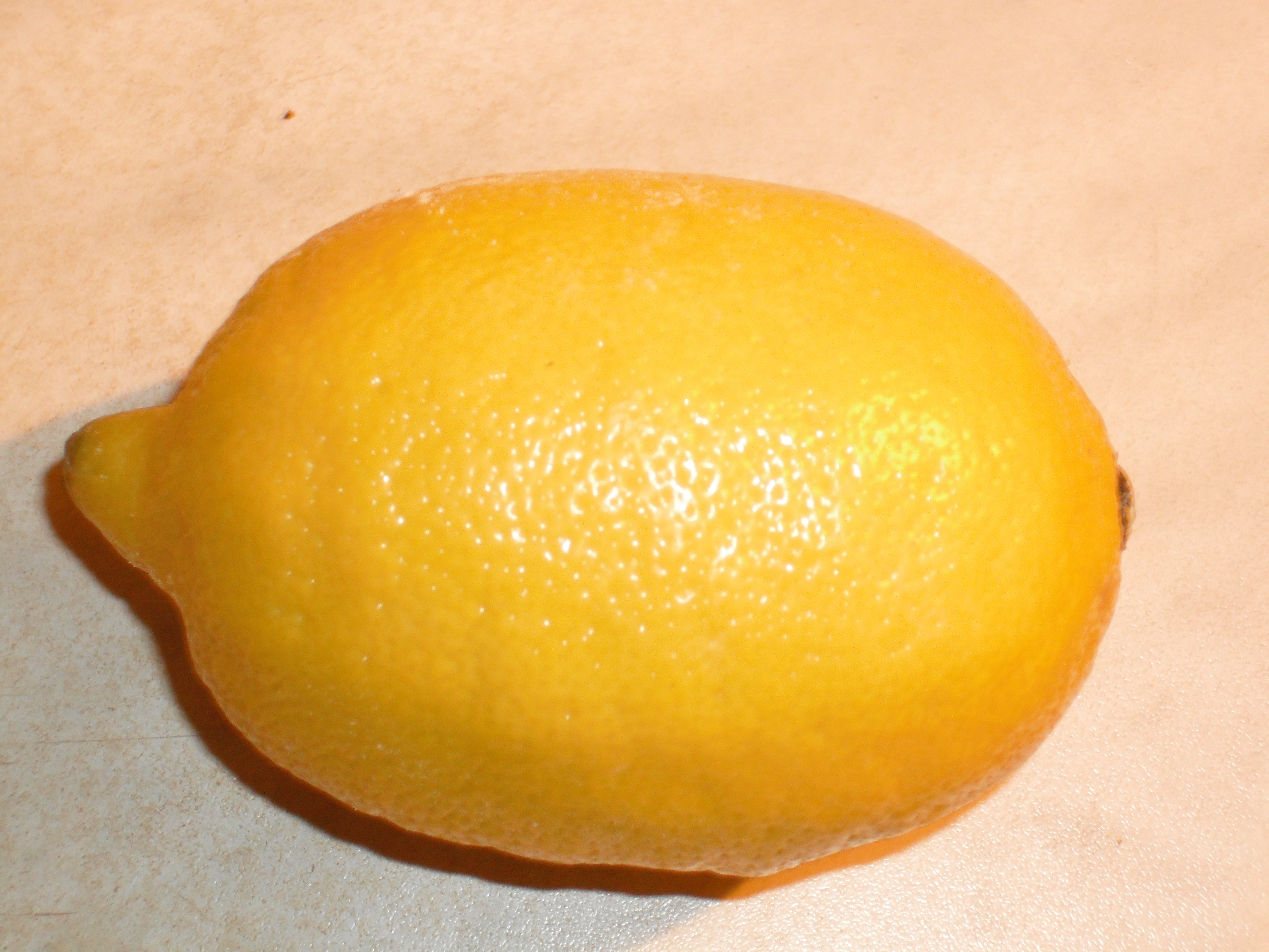 A big yellow lemon. Shot on Christmas Eve in Budapest, Hungary.